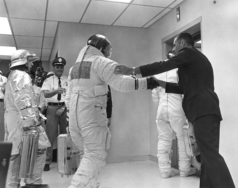 Bill Anders shakes hands with Buzz and wishes him well as he and the others enter the elevator in the MSOB on launch day. Note Buzz's black IV glove. Note, also, the LM tether attachment on the Buzz's right hip, a clear indication that the astronaut is a LM crewman. Ken Glover notes that in KSC-69PC-377 ( 136k ), taken late in suit-up, we see a black strap running from ear-to-ear across the top of his Snoopy cap. That same black strap can be seen in KSC-69PC-399 ( 200k ), shows Neil walking across the swing arm with the black strap still in place. In contrast, suit-up photo 69-H-1131 ( 110k ) shows Buzz already in his helmet but with the strap hanging down over his right ear. The LM crewman in KSC-69P-639 does not have a black strap running across the top of his Snoopy cap. See, also, KSC-69PC-412 125k. 16 July 1969.